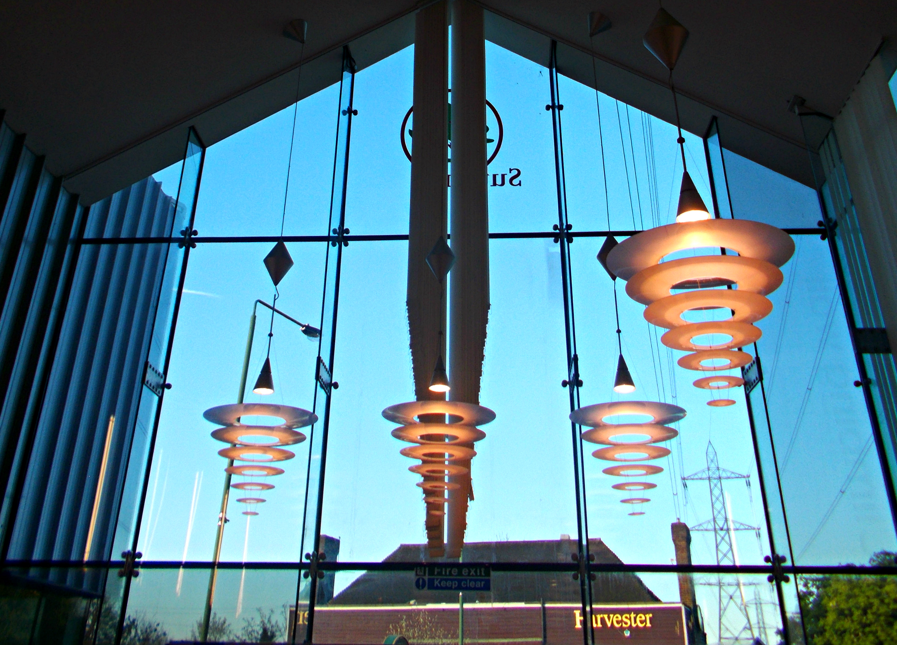 Interior of the Sutton Life Centre